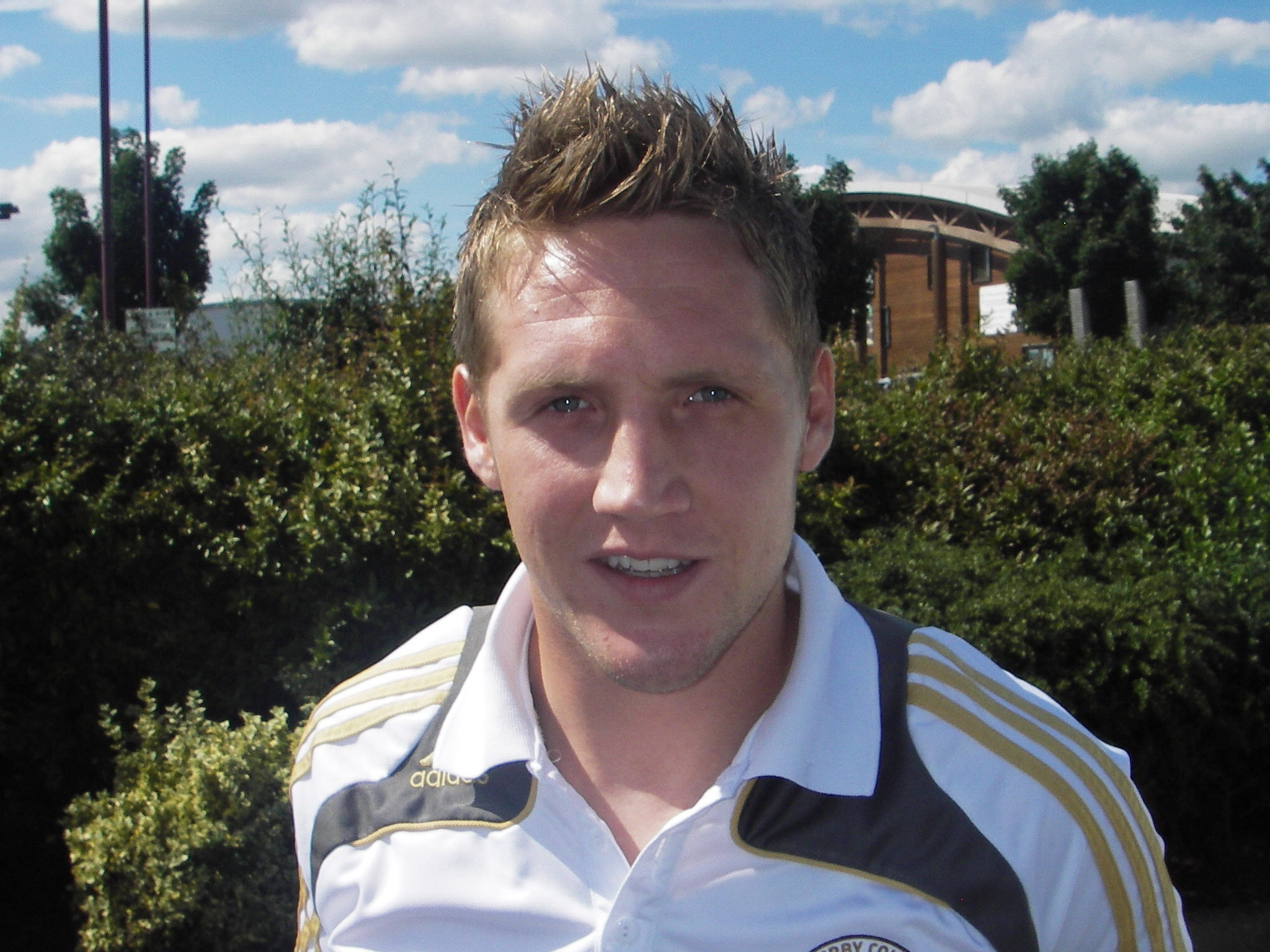 Kris Commons, English/Scottish footballer